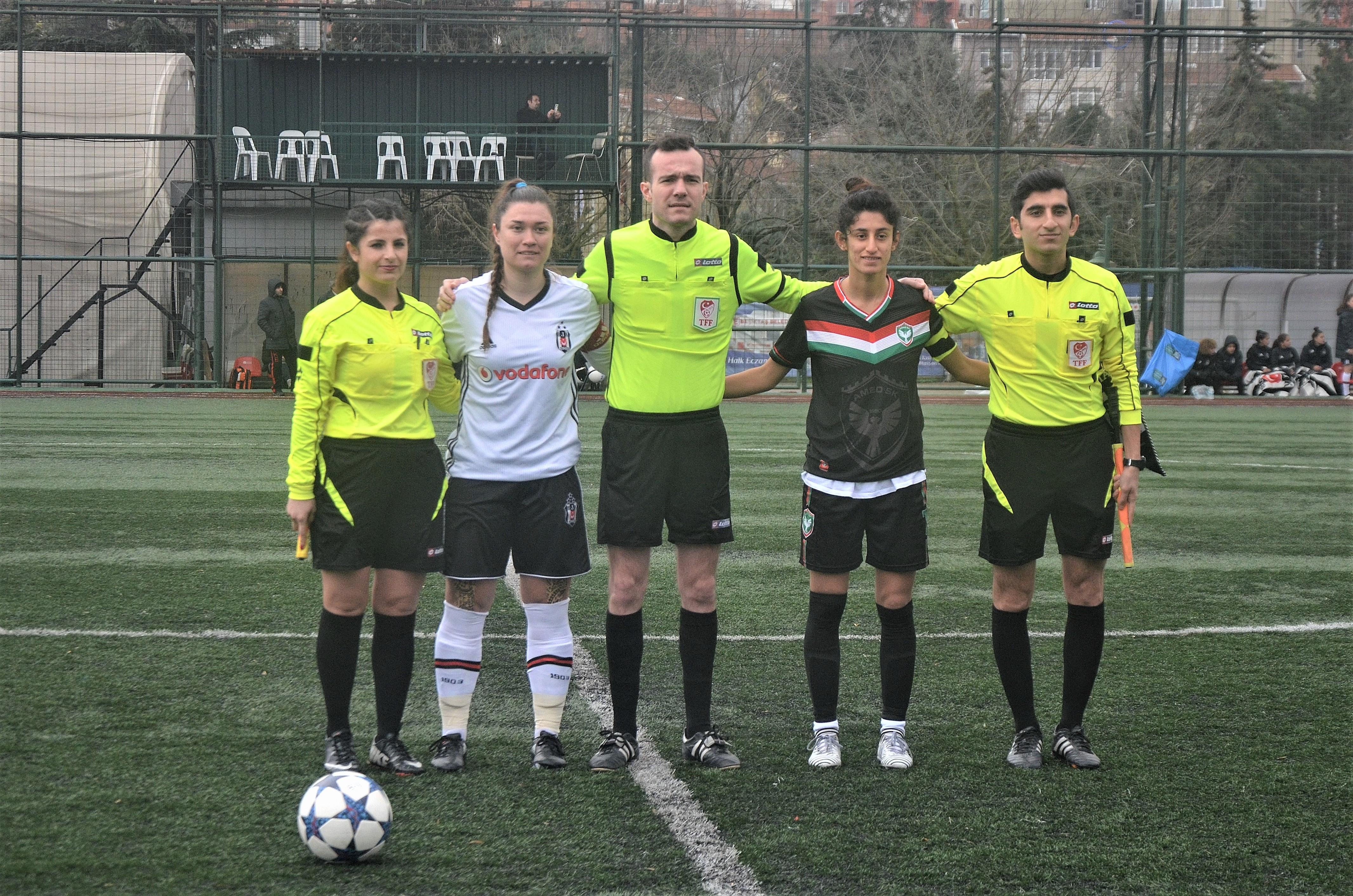 Beşiktaş JK (white/black) vs Amed SK (black) in the 2017-18 First League. (From left to right) Mesude Kip (Asst. referee), Gizem Gönültaş (Beşiktaş JK), Samet Tükenmez (Referee), Güzide Alçu (Amed SK), Ozan Gürleyük (Asst. referee).